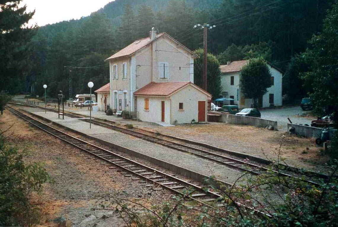 The railway station in Vizzavona (Vivario), on Corsica. One of the stops on the hiking track GR20, and one of the ways to leave and enter the track without doing the full distance.